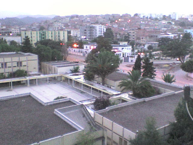 this is kaoula touness lycee